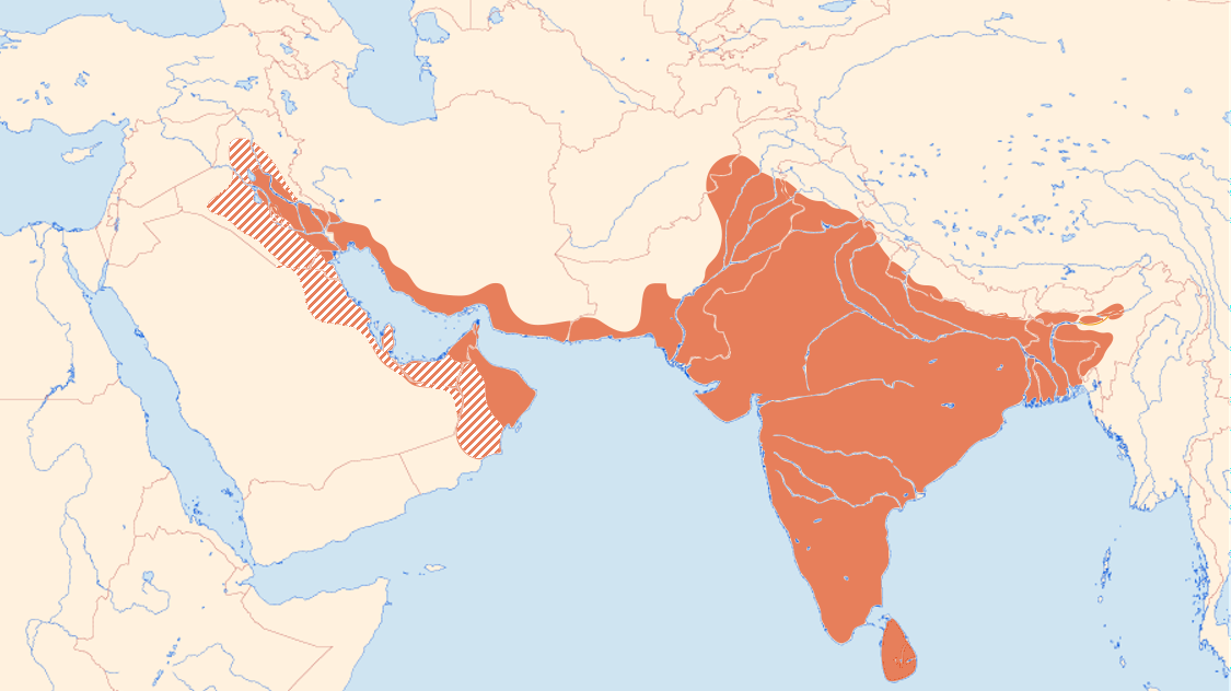 Range Map of Coracias benghalensis